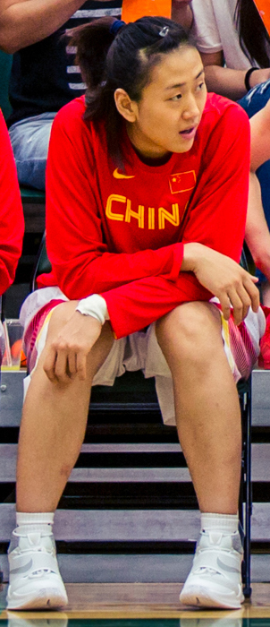 Gao Song (basketball) sitting on the bench during the 2016 Edmonton Grads International Classic series